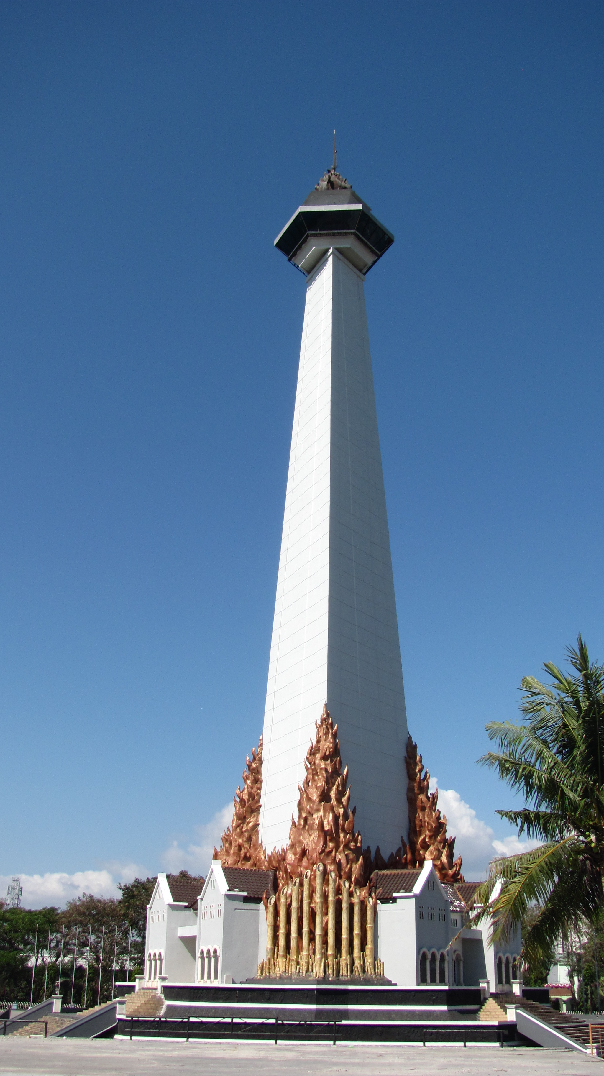 Mandala Monument, Makassar, Indonesia